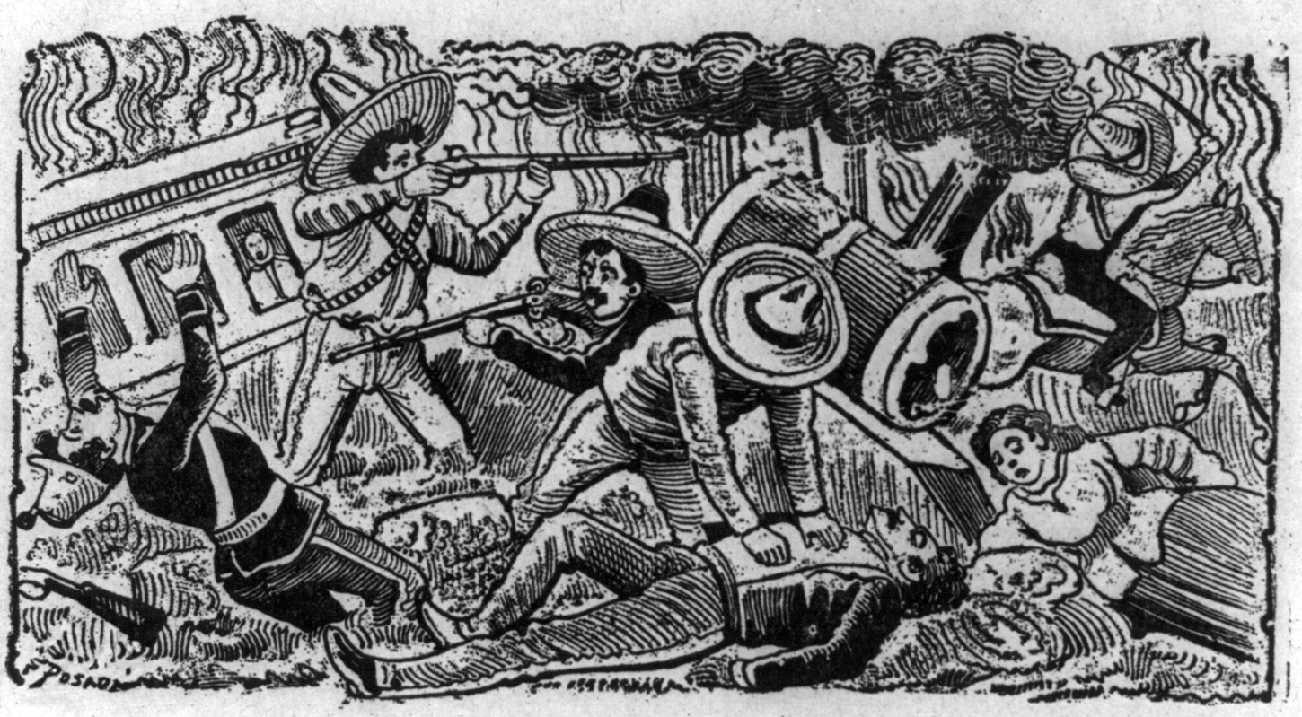 Assault of the Zapatistas